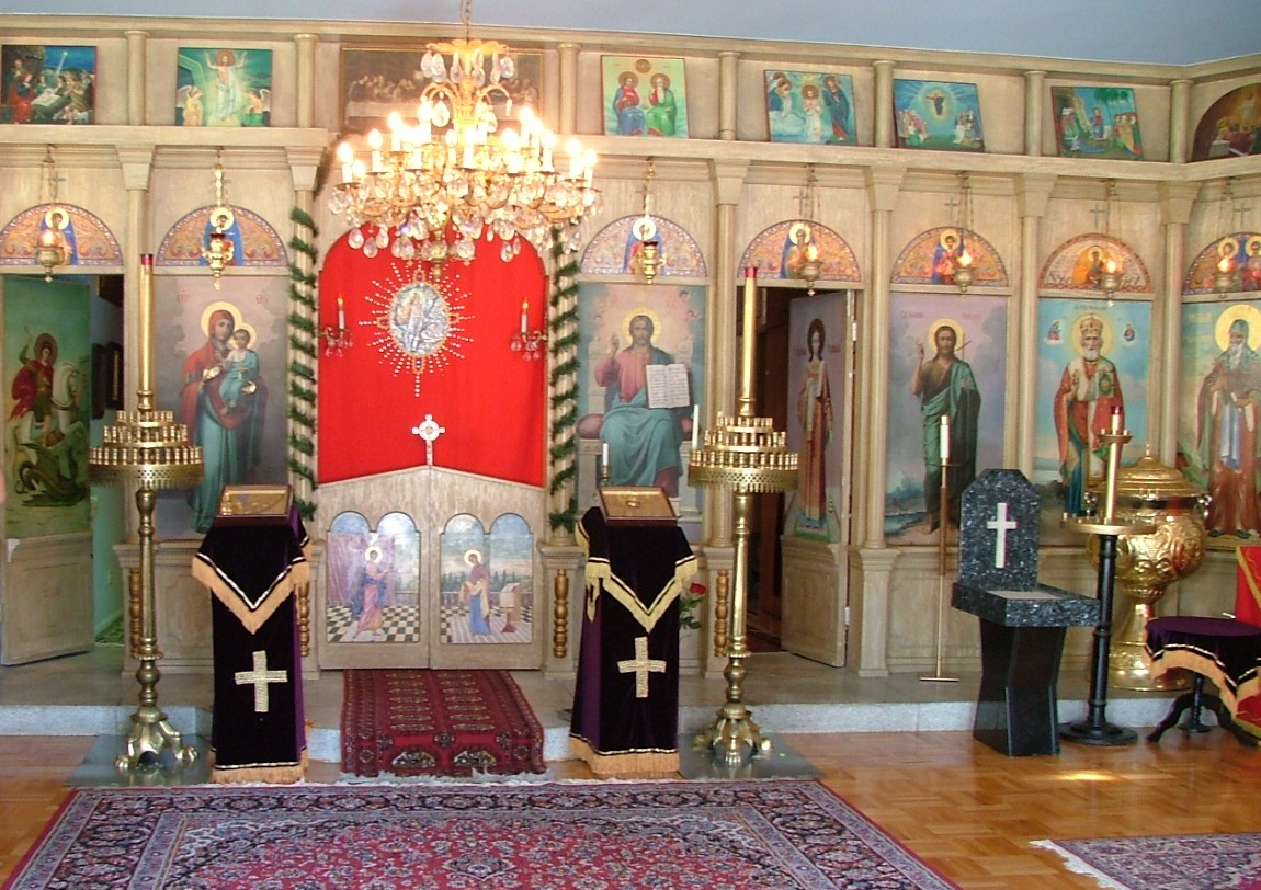 The interior of "St. George" Bulgarian Orthodox Church in Los Angeles, CA